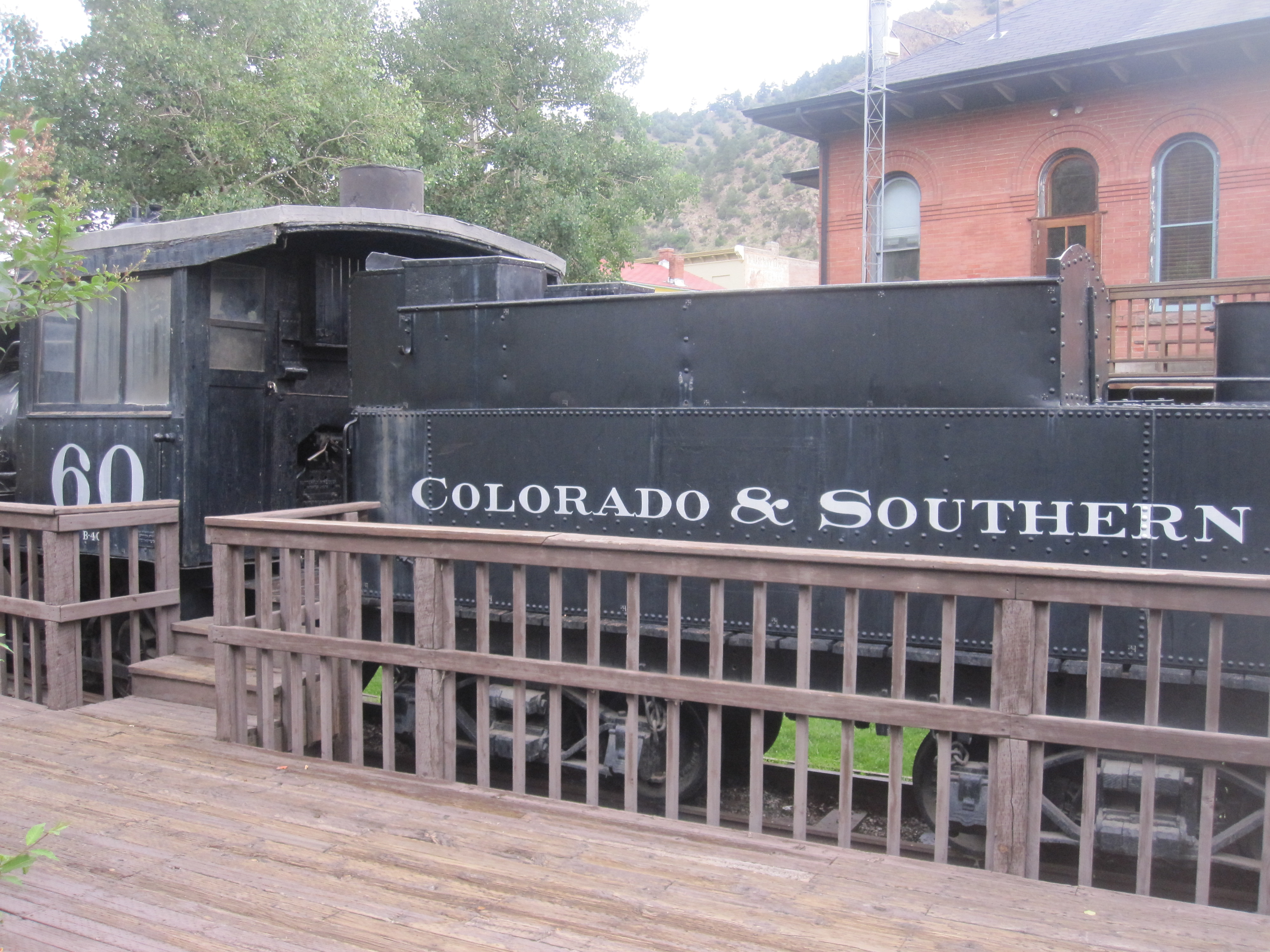 Colorado and Southern locomotive number 60 on display in Idaho Springs, Colorado, taken with a Canon camera.